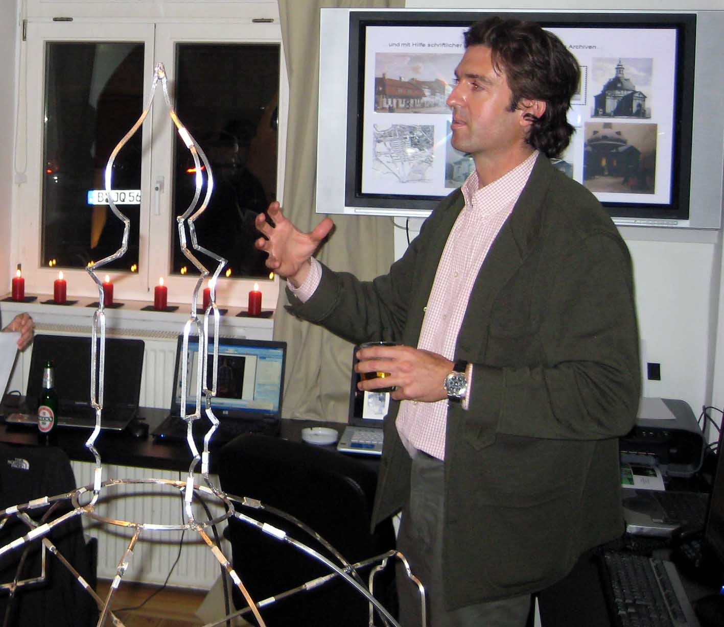 Conceptual artist Juan Garaizabal presents his new project for his series "Urban Memory" at his Berlin gallery